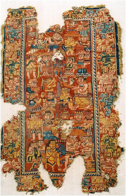 A 5th- or 6th-century knotted wool carpet discovered at Sampul, Lop, Sinkiang believed to be depicting a a part of the Story of Gilgamesh. Historically, Sinkiang was a part of the Kingdom of Khotan which was founded by the Scythians/Saka. It is possible that the Story of Gilgamesh transferred down through the Scythian people. Duan Qing at Peking University identifies the depiction as relating to Gilgamesh (Across-Regional and Local Characteristics of Mythologies: On the Basis of Observing the Lop Museum Carpets). One other theory proposed by Zhang He is that they may depict Krishna instead (Krsna Iconography in Khotan Carpets: Spread of Hindu Religious Ideas in Xinjiang, China, Fourth–Seventh Centuries CE).